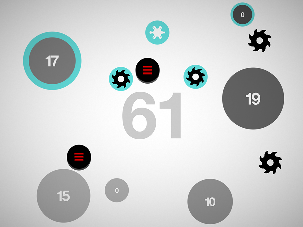 Asset from Hundreds video game